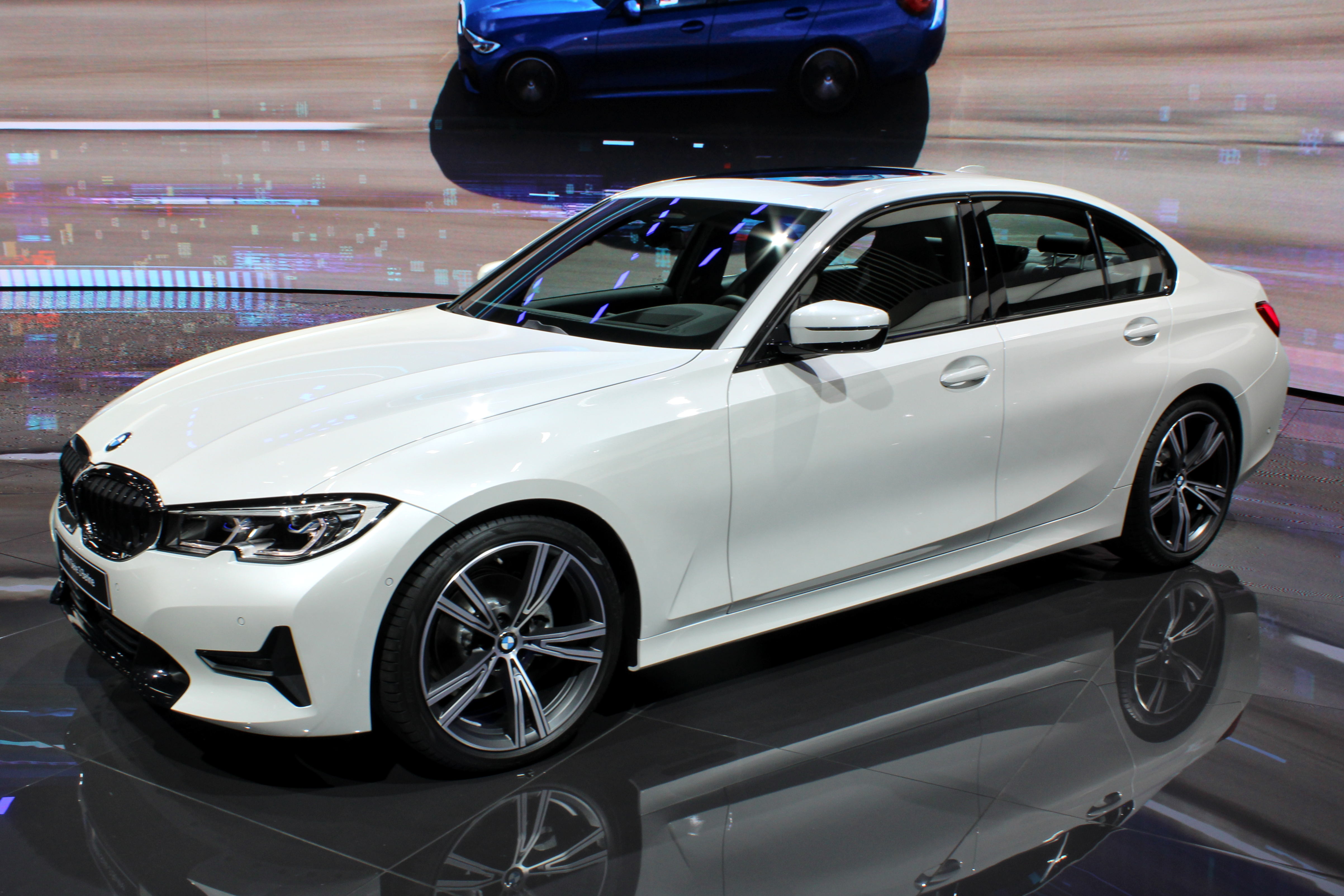 BMW G20 at Paris Motor Show 2018